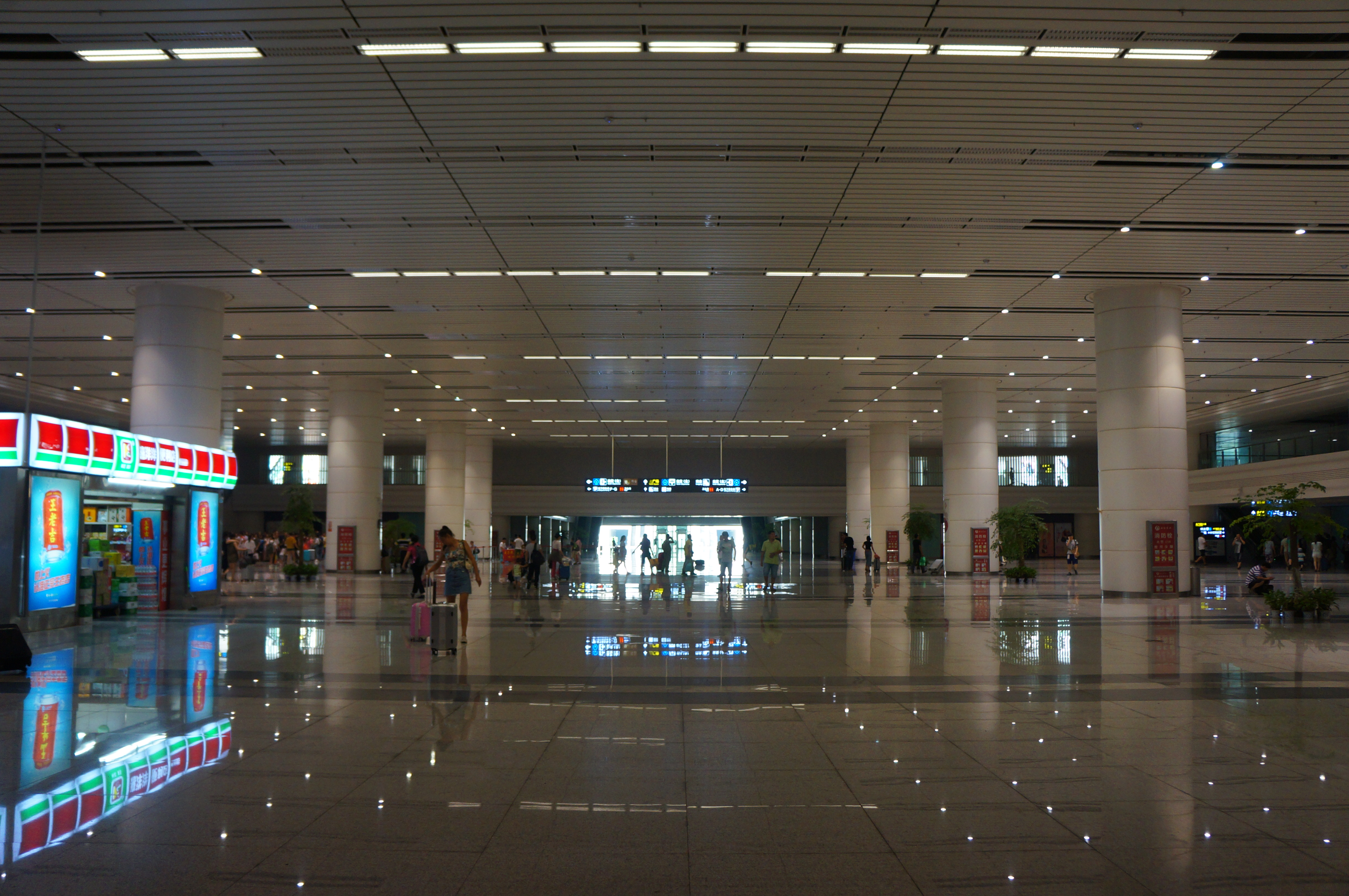 201608 Northern Arrival Hall of Nanchangxi Station